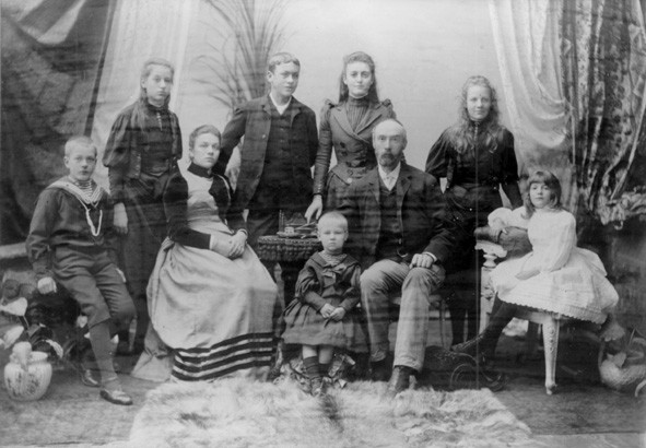 This is a photograph of C. Y. O'Connor and his family, taken in Wellington, New Zealand in 1891.